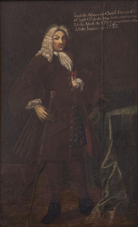 João de Abreu de Castelo Branco, Governor and Captain-General of Madeira Island. 18th-century portrait in the Palace of São Lourenço, Funchal.